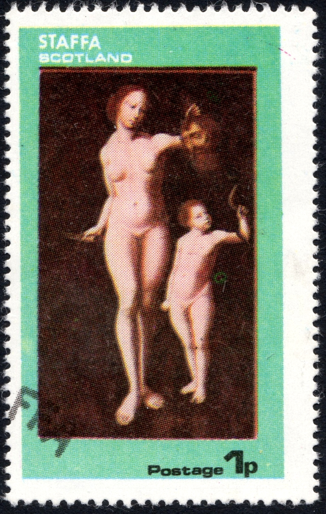 A bogus stamp of Staffa, believed to have been produced by Clive Feigenbaum or companies associated with him